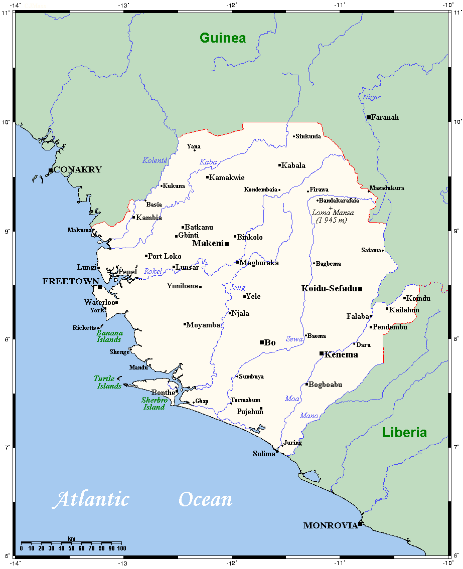 A map showing Sierra Leone's cities, main towns, selected villages and highest point.